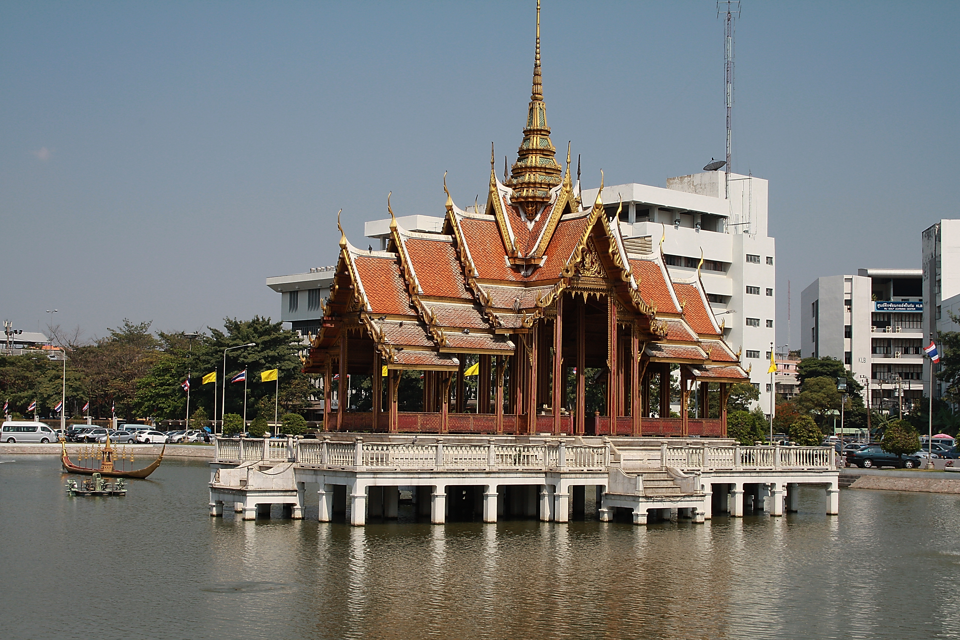 Ramkhamhaeng University in Bang Kapi District, Bangkok, Thailand.